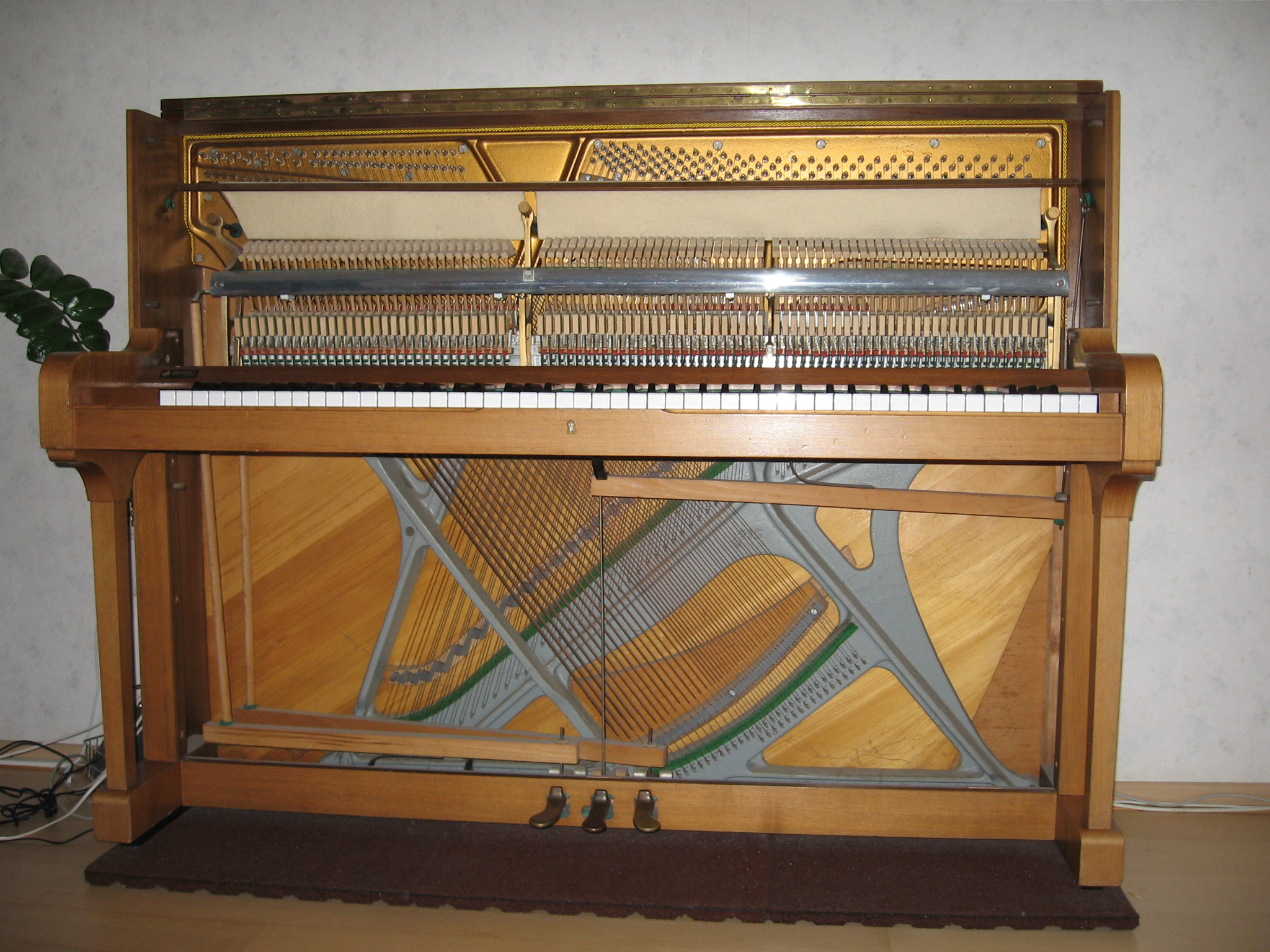 Photo of the inside of a cross-stringed piano